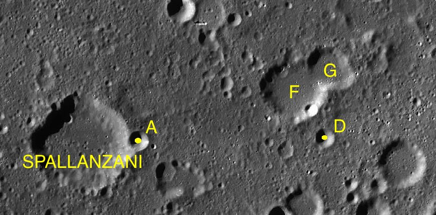 Part of the chart LAC-113 used for the presentation